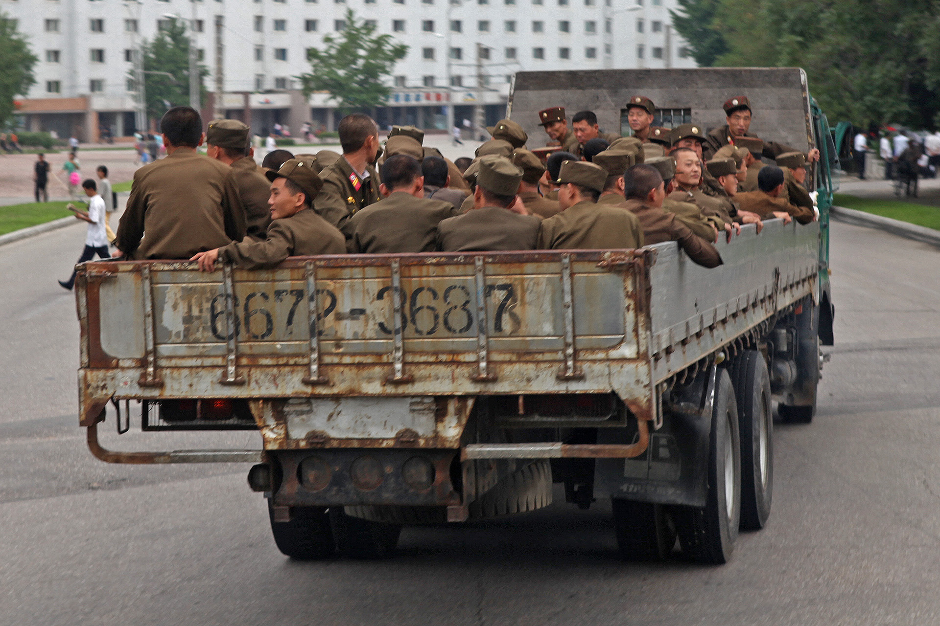 No fuel, no cars for the soldiers. The army often uses this style of transportation.